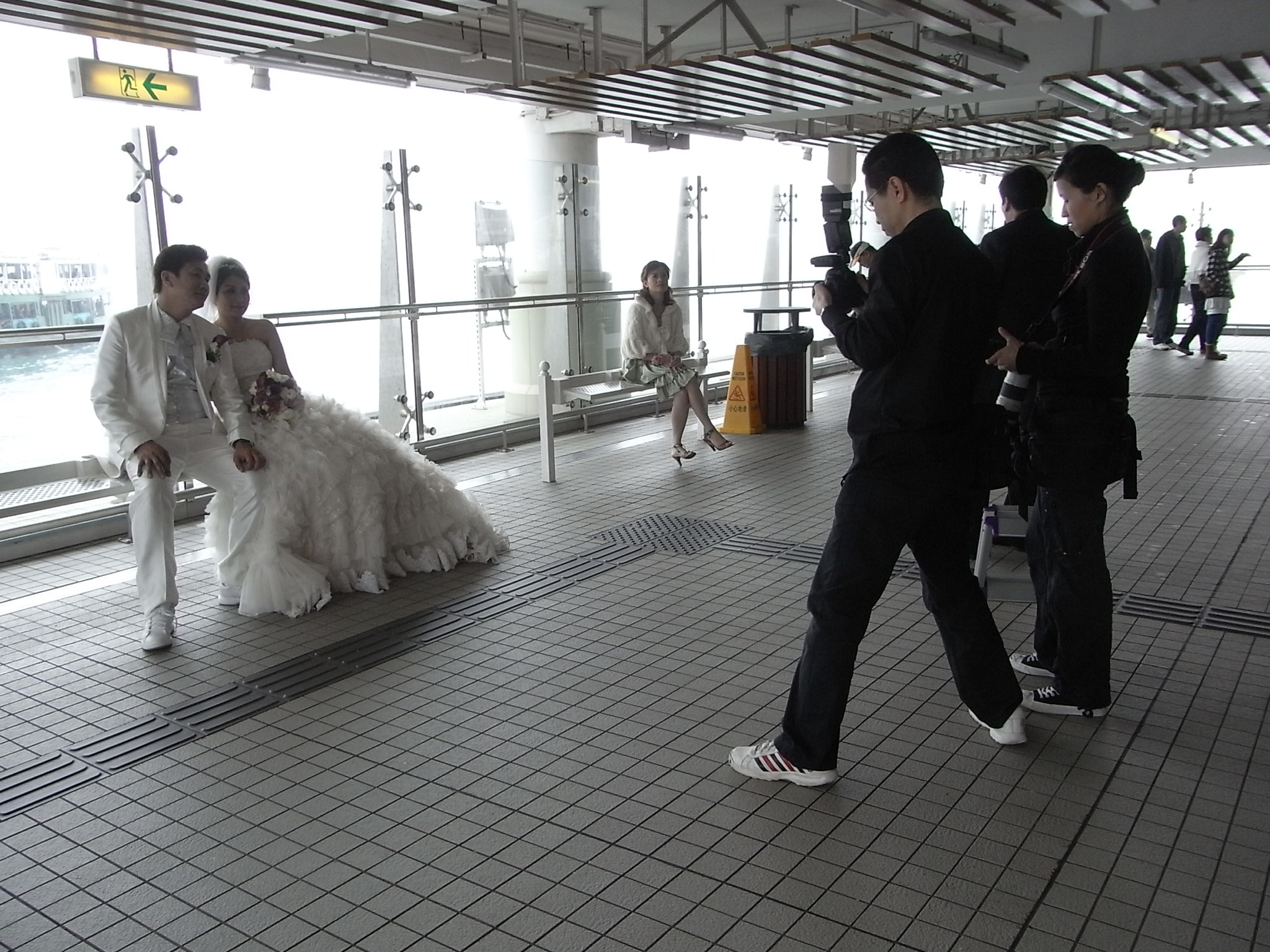 香港天星小輪